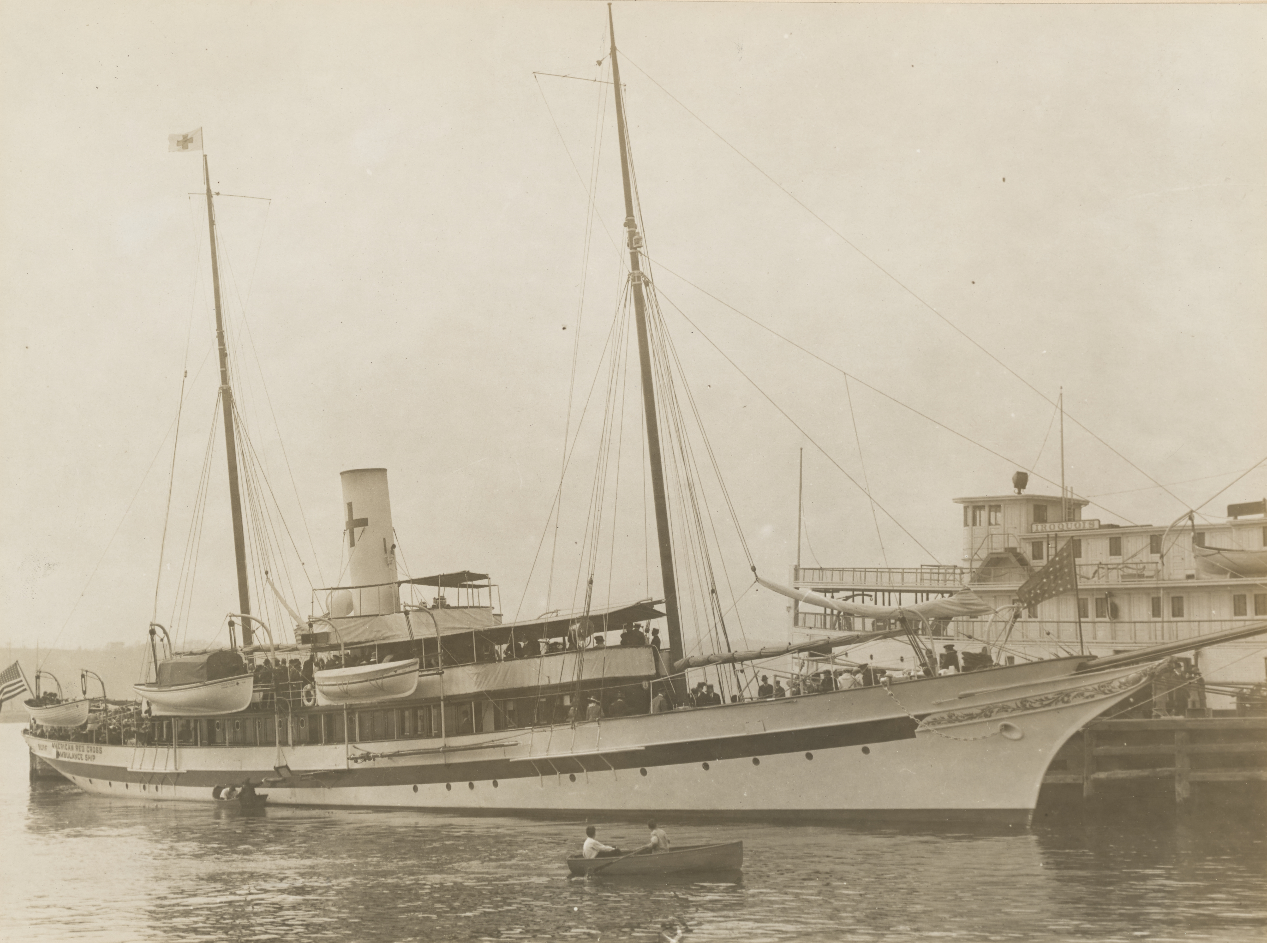 Scope and content: Original Caption: Society's floating palace now an ambulance ship. The yacht surf which has been turned over to the Government by her owner Dr. John A. Harriss and which will be used as a hospital ship. The Surf is 202 feet over all and 165 feet at the water line. She carries a crew of sixty and can accommodate 125 patients on her decks and in her berths. Photographer: Western News Union